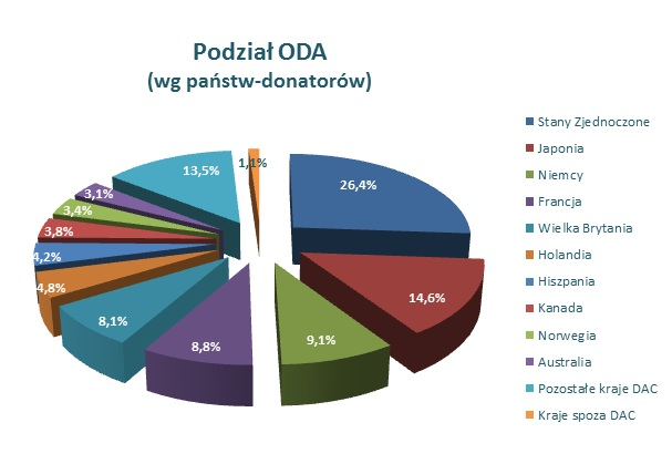 Podział ODA (wg państw-donatorów)